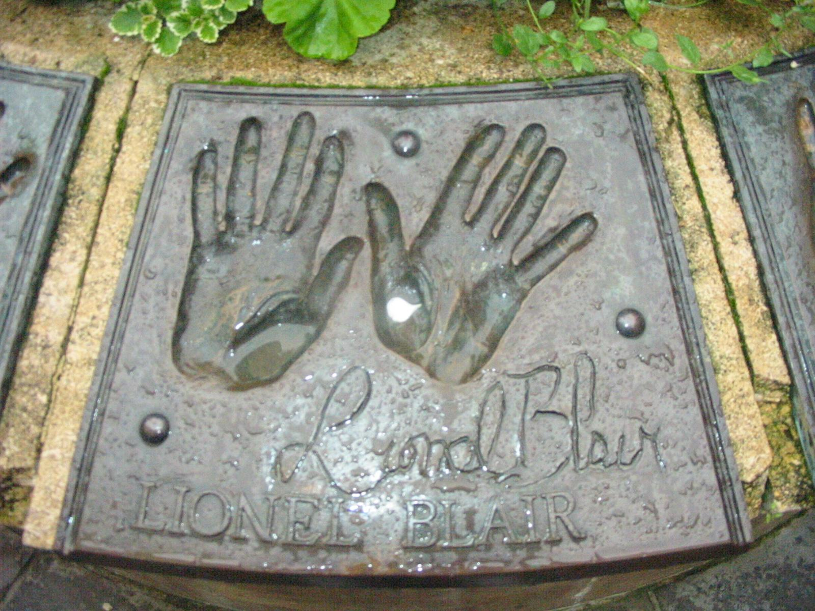 Lionel Blair's handprints, Bath